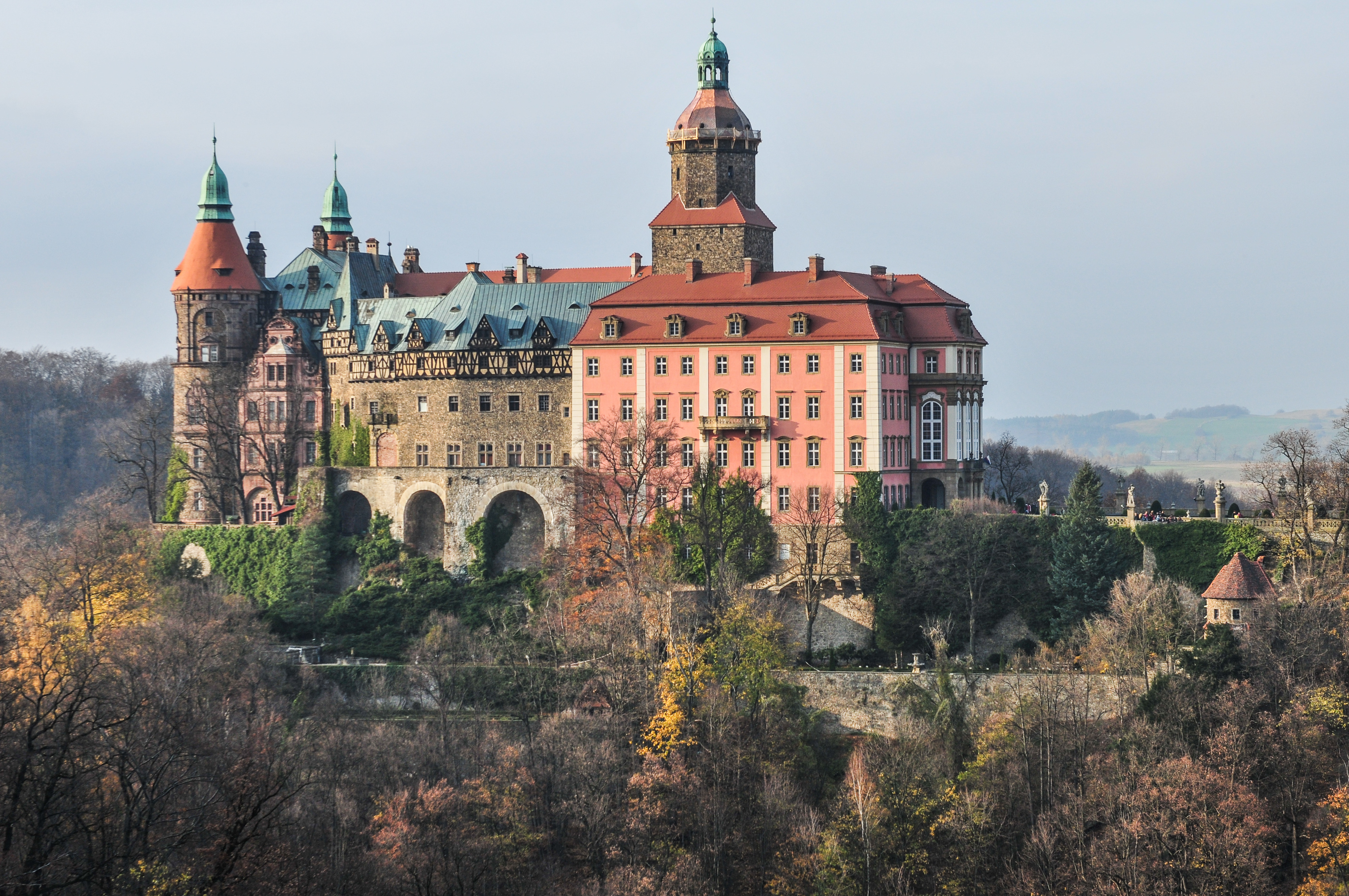 Ksiaz Castle in Walbrzych